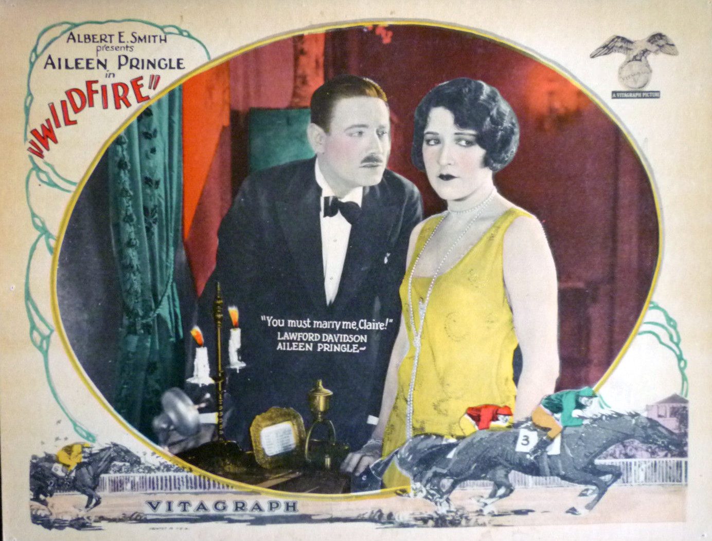 Lobby card for the American drama film Wildfire (1925) with Lawford Davidson and Aileen Pringle.